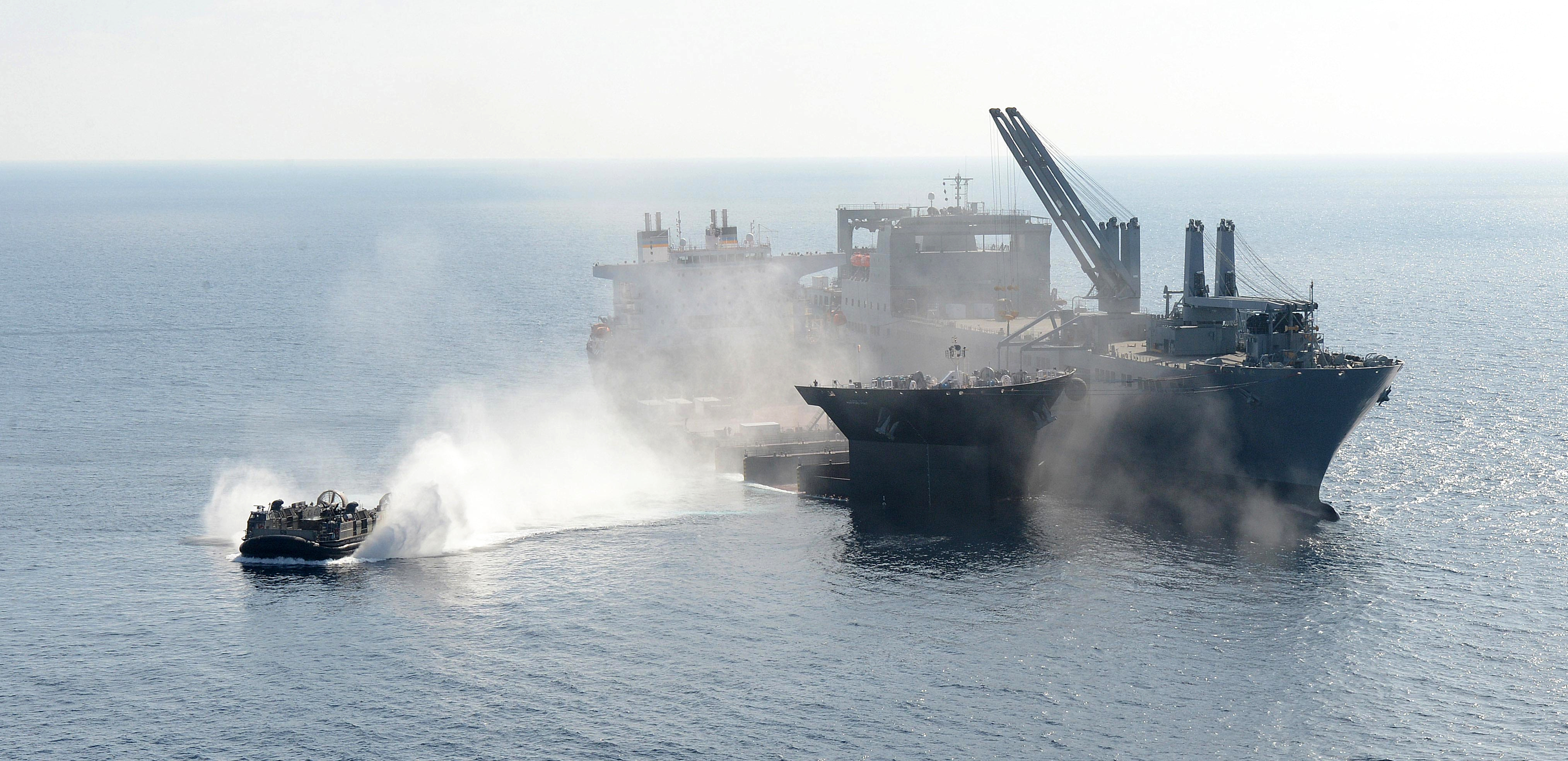 A Landing Craft Air Cushion transports a Logistic Vehicle System Replacement ashore from the Military Sealift Command mobile landing platform USNS Montford Point (T-MLP-1) as part of offload operations held during the Montford Point's post-delivery test and trials in the Pacific Ocean. Alongside Montford Point is the vehicle cargo ship USNS Bob Hope (T-AKR-300).